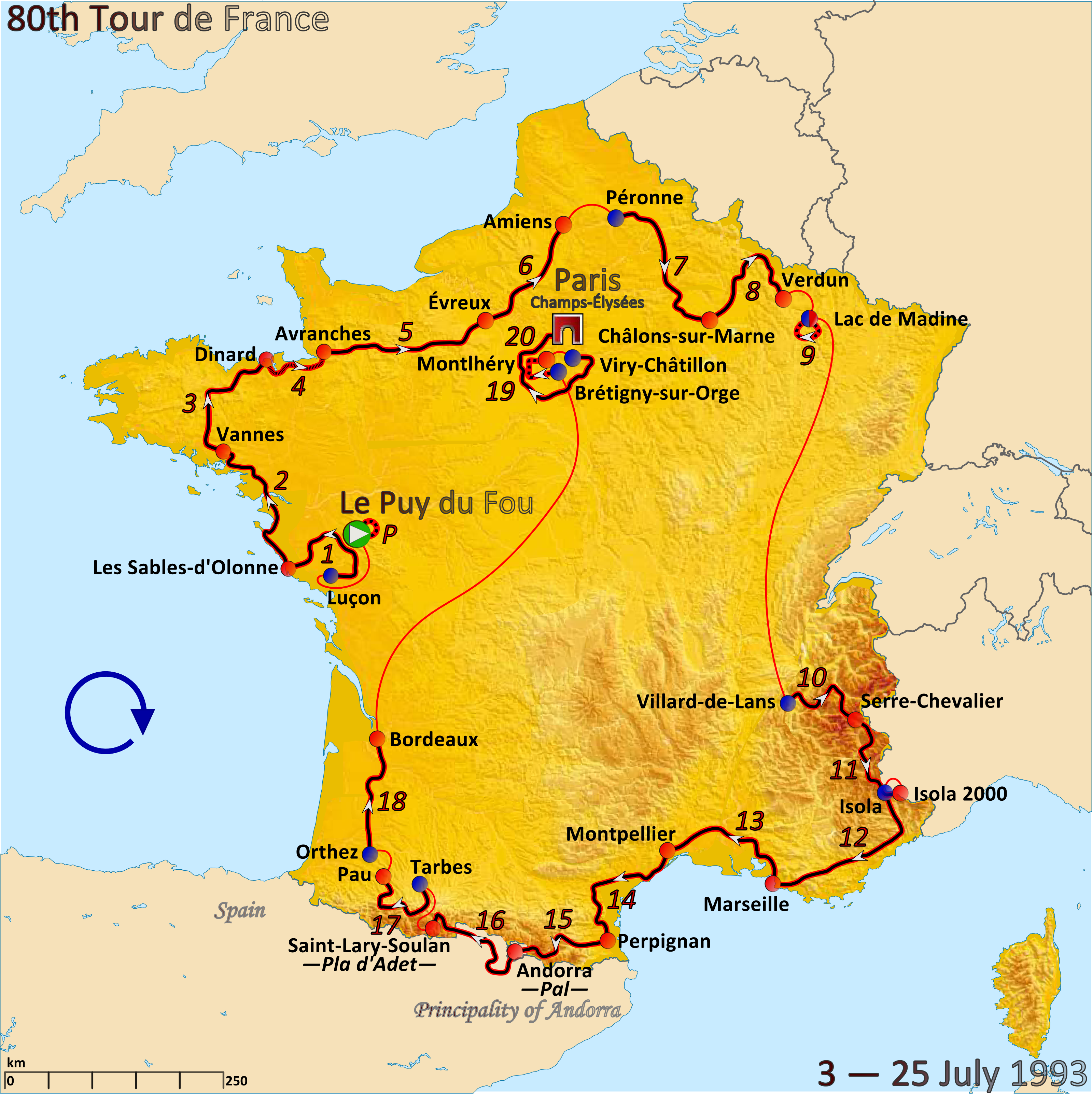 Route of the 1993 Tour de France created by me using Inkscape vectors superimposed on a France model.